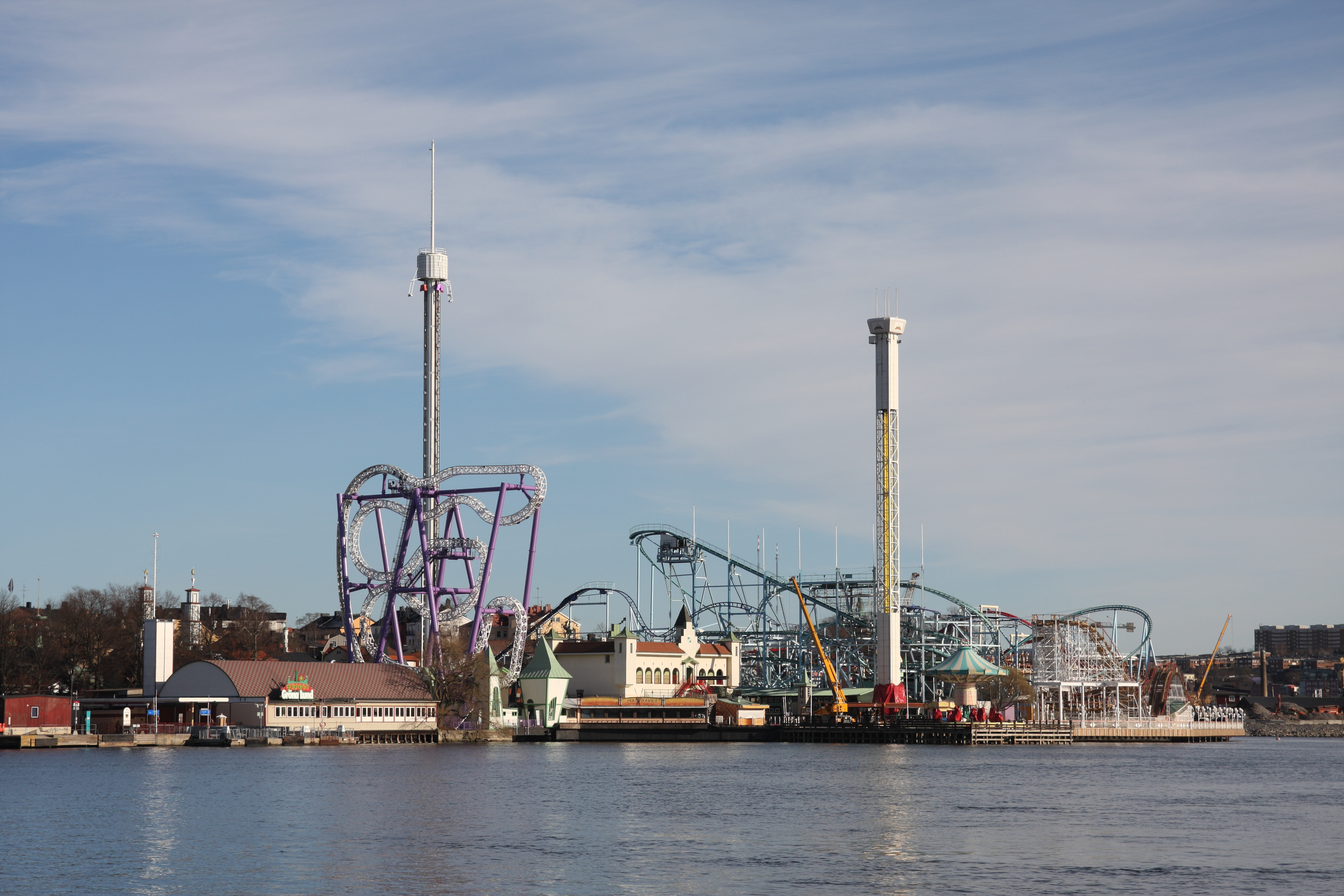 Amusement park Gröna Lund as seen from Kastellholmen.